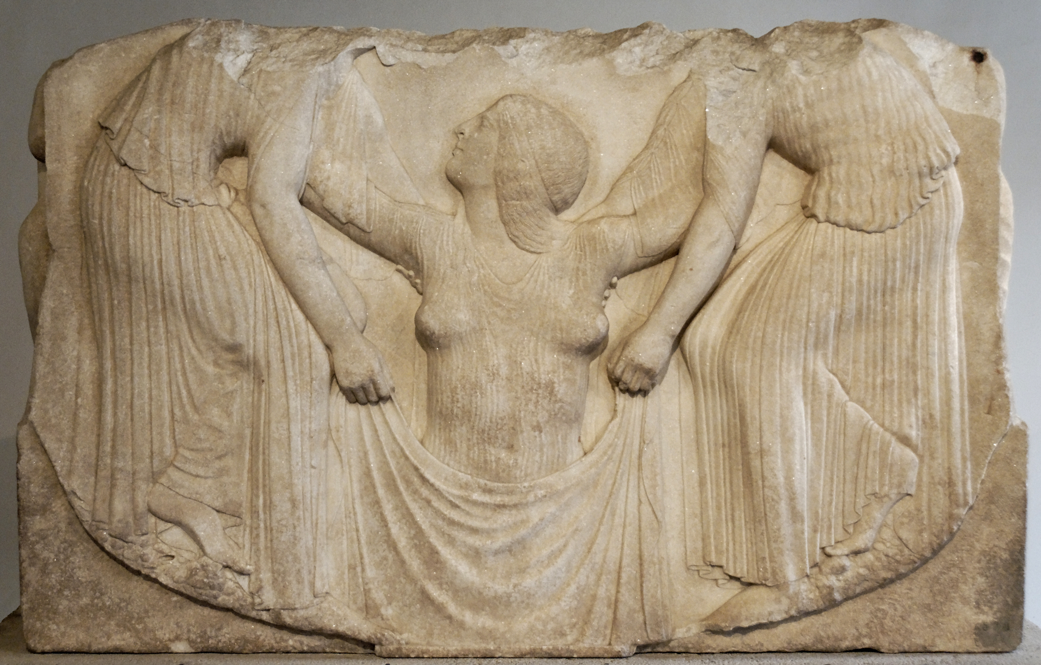 So-called “Ludovisi Throne”: main panel, Aphrodite attended by two handmaidens as she rises ouf the surf. Thasos marble, Greek artwork, ca. 460 BC (authenticity disputed).